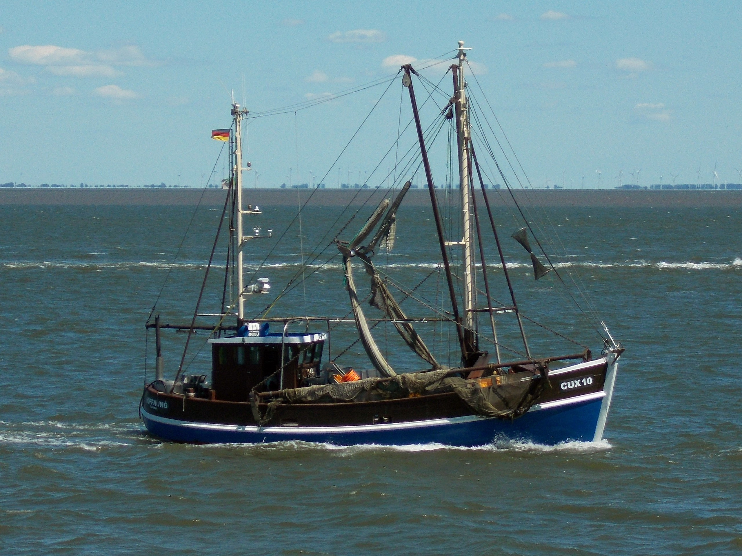 The fishing boat Hoffnung (CUX 10) on the Elbe river near Cuxhaven